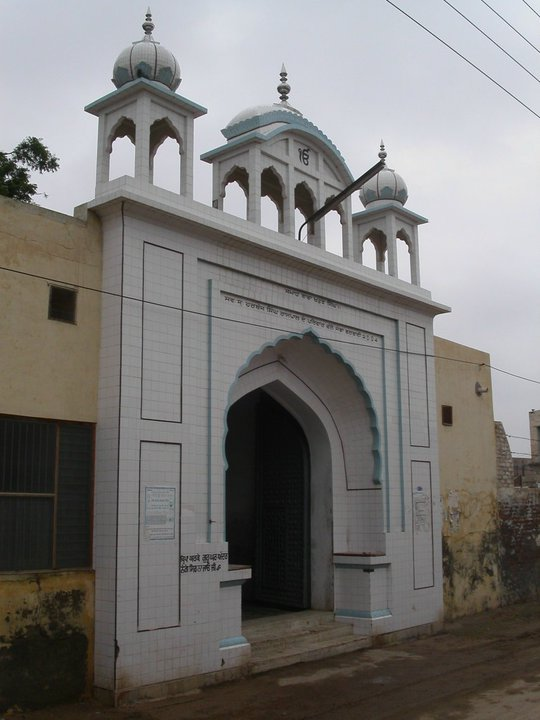 I (wikiuser:Shemaroo aka Shivender Singh)have uploaded this photo and created by Mr. Satvinder Rajpal.He has issued this photo for wikipedia under following license.In this photo you can see Sikhwala Gurdwara main gate.In this Gurudwara Samadh of Baba Kharak Singh is situated.Shemaroo (talk) 08:29, 25 February 2012 (UTC)